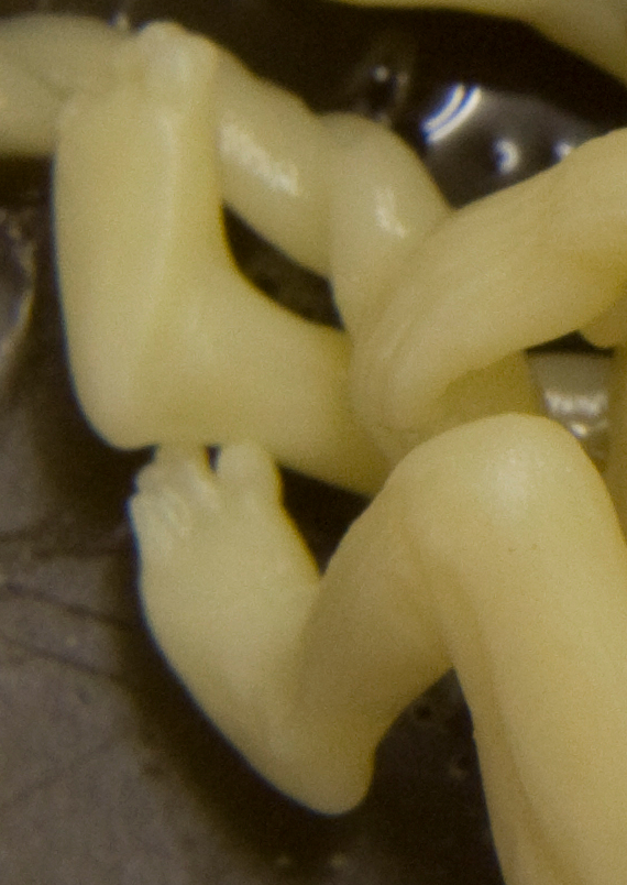 Dorsal and Plantar view of an aprox 9-10 week (37 mm) human foetus from a school of medicine's anatomy collection. The picture shows the well-formed toes, and the almost complete supination of the posterior autopod.